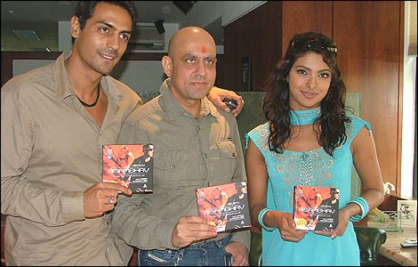 Film hero Arjun Rampal, director Rajiv Rai and heroine Priyanka Chopra promoting the music album of Asambhav.